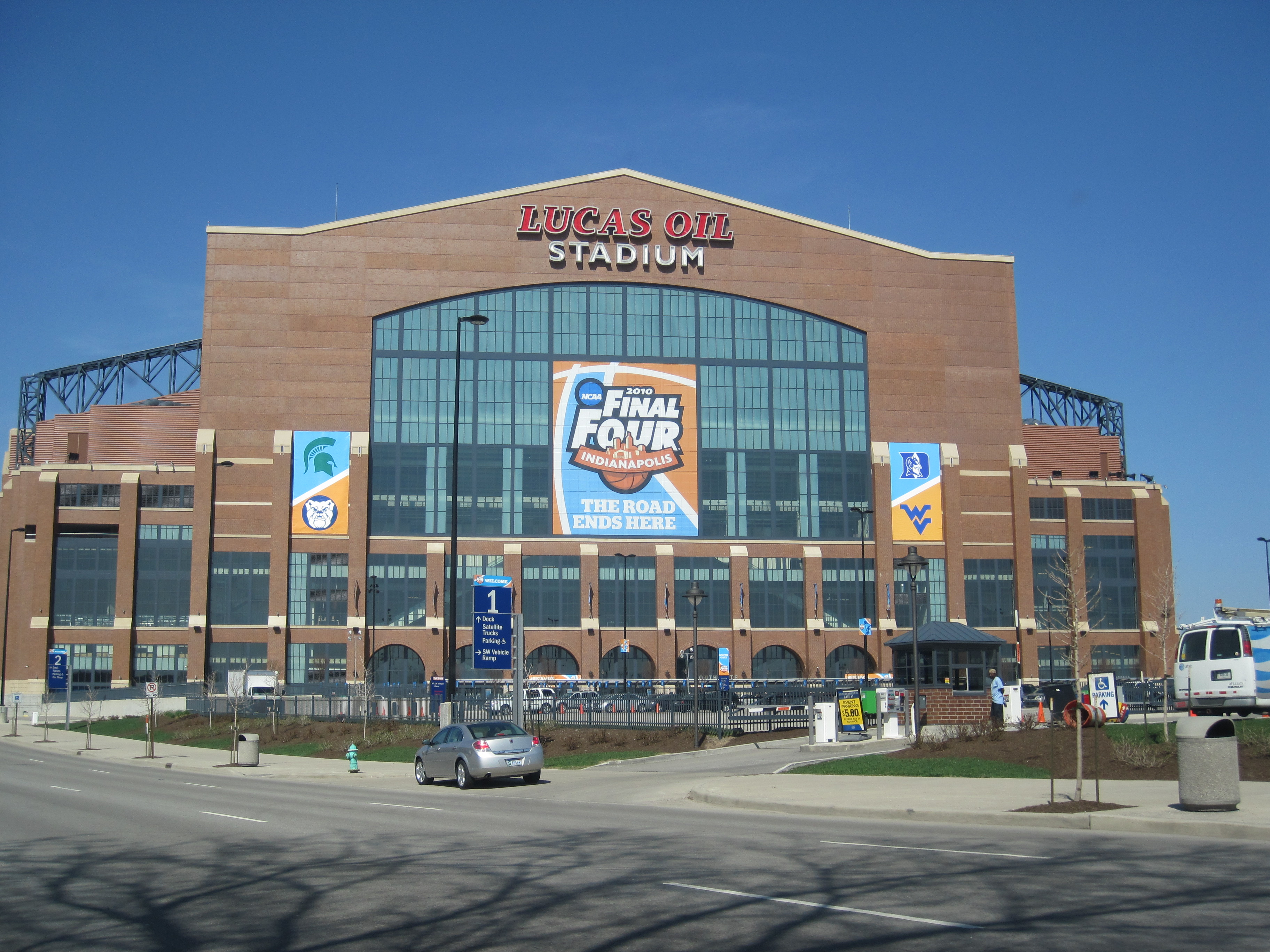 The South side of Lucas Oil Stadium for the 2010 NCAA men's Division I basketball tournament (Final Four round) in Indianapolis, Indiana